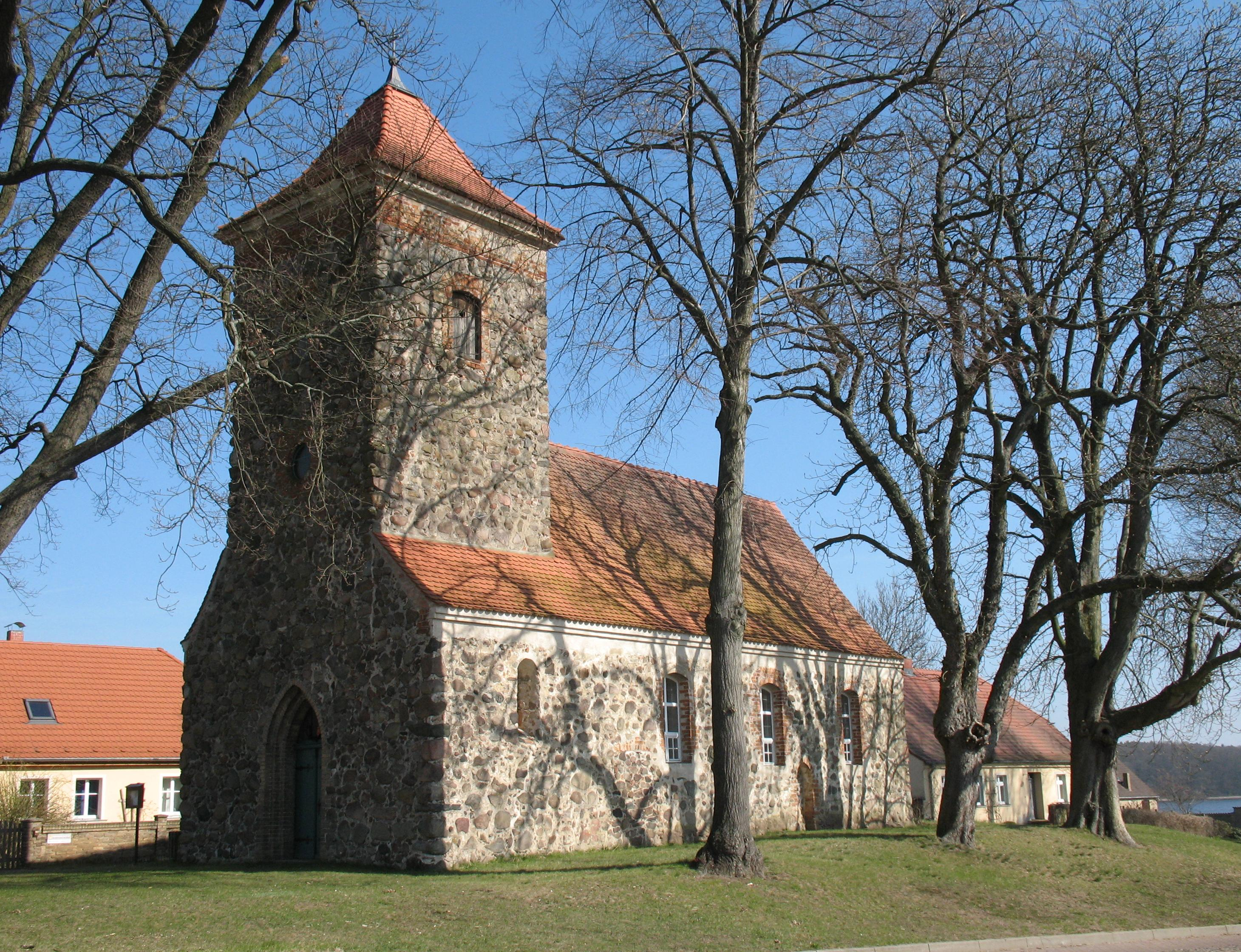 Church in Vielitzsee-Vielitz in Brandenburg, Germany